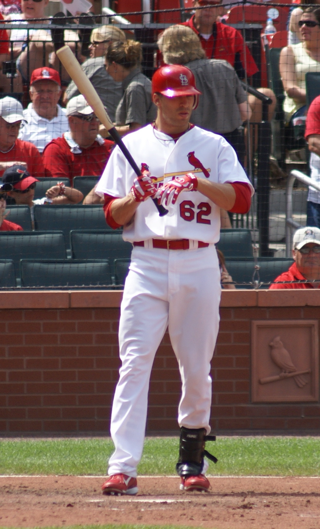 Joe Mather